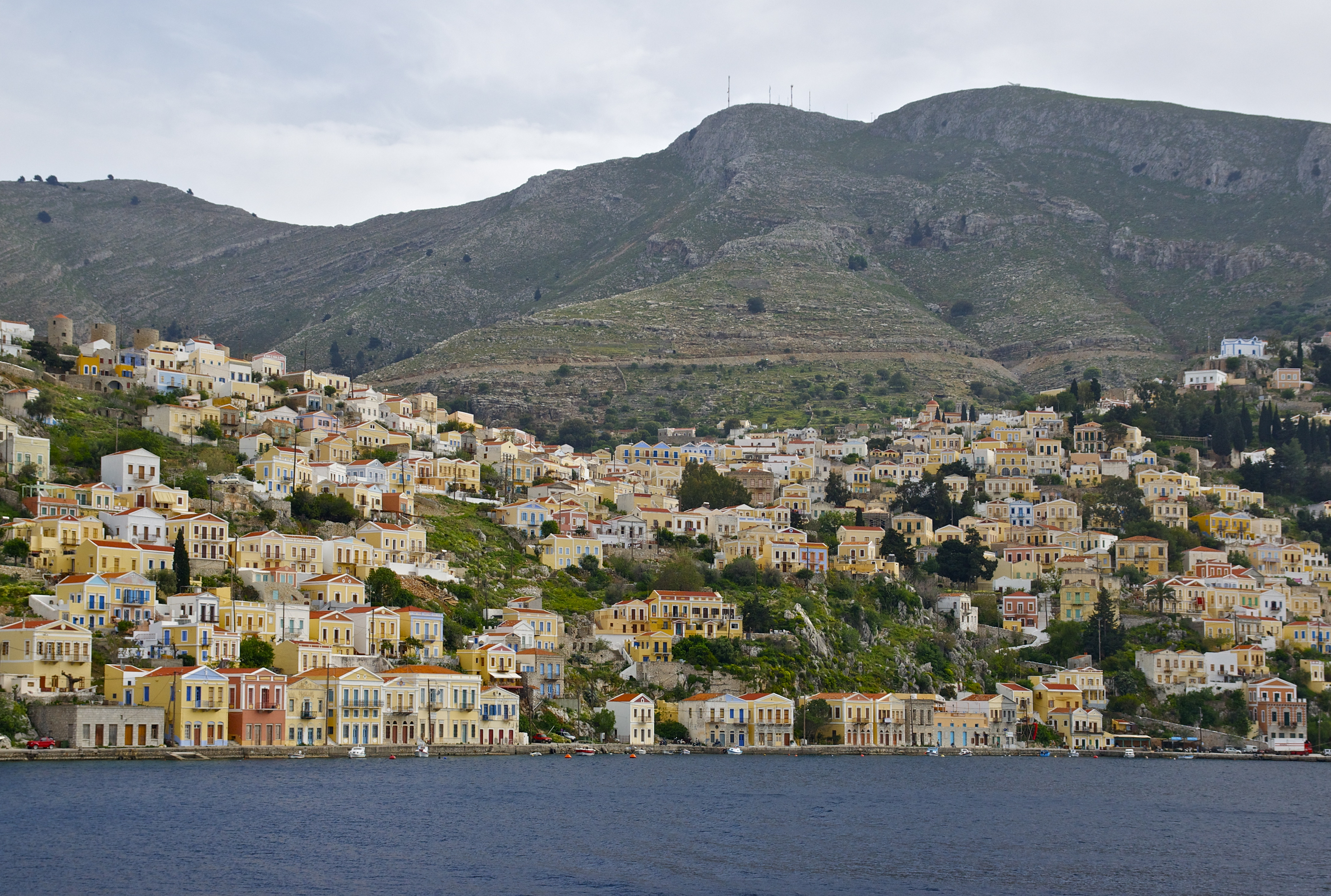 Some painted houses in Symi, Island of Symi, Greece.